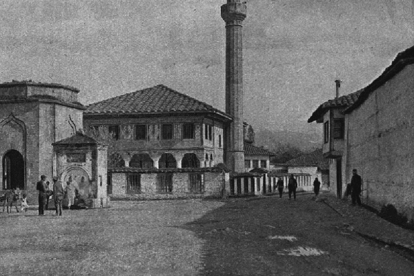 Sarena Dzamija